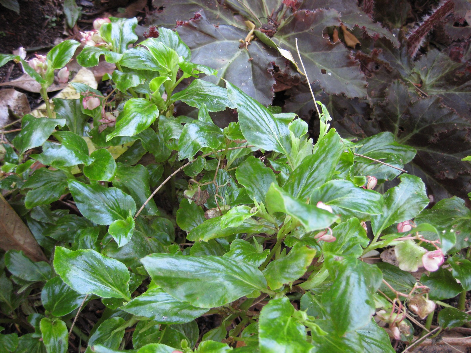 Photographed at the Royal Botanic Gardens Sydney (Australia) in December